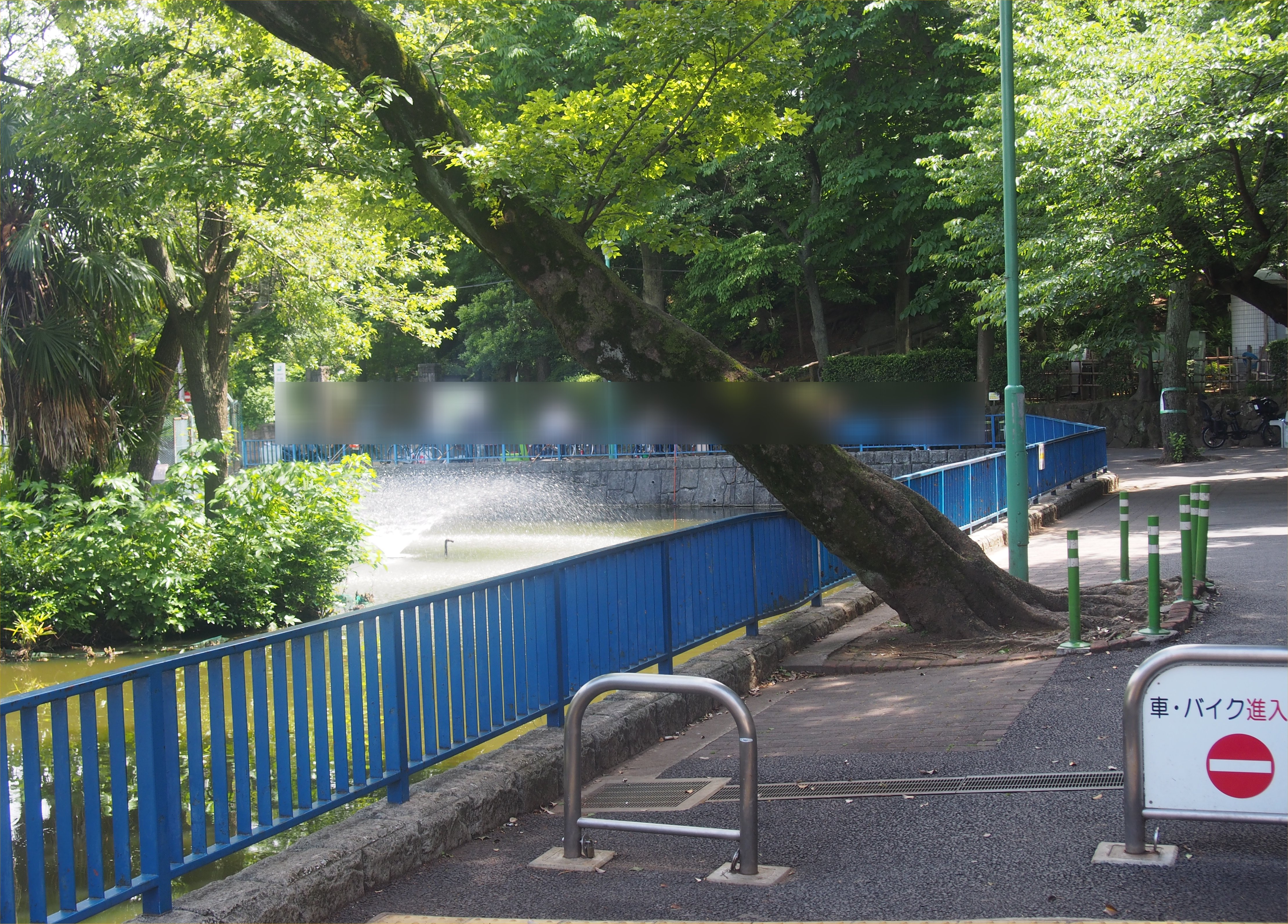 Honmonji Park in Ikegami, Ota Ward, Tokyo, Japan